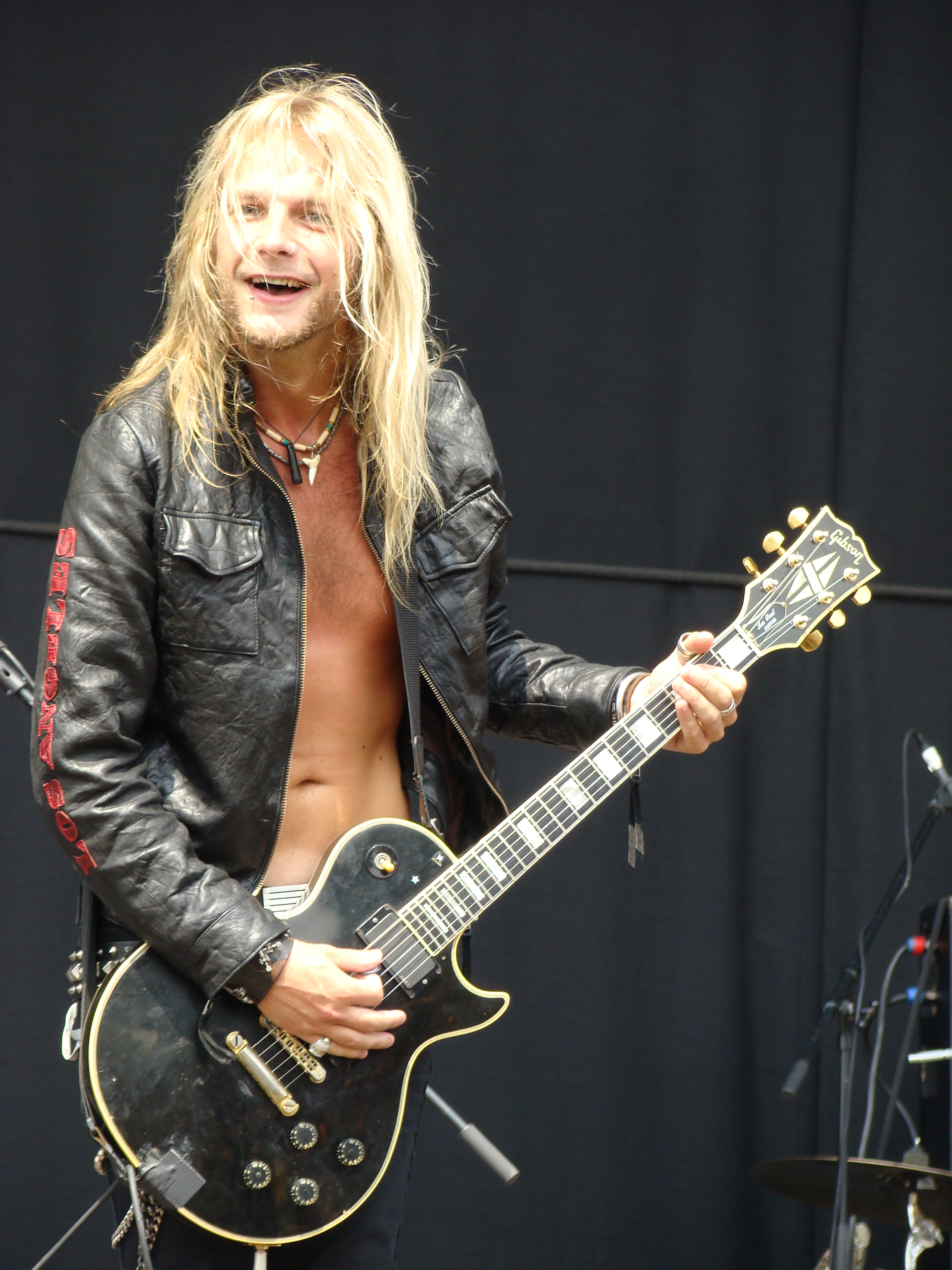 Richie Faulkner playing live with Lauren Harris at Gods of Metal festival (2009).